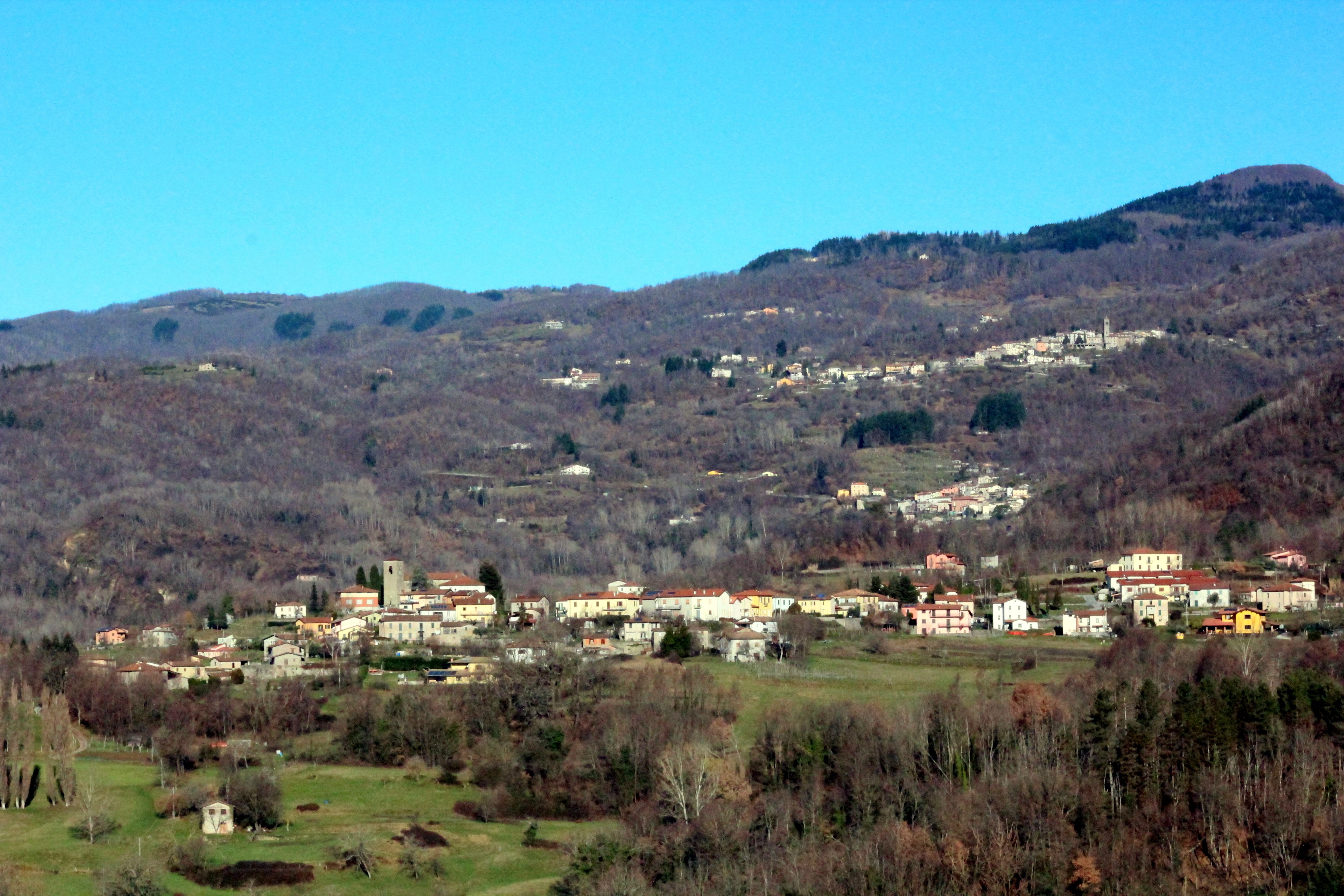 Panorama of Villa Collemandina, above the hamlets Massa and Sassorosso (top), Garfagnana, Province of Lucca, Tuscany, Italy